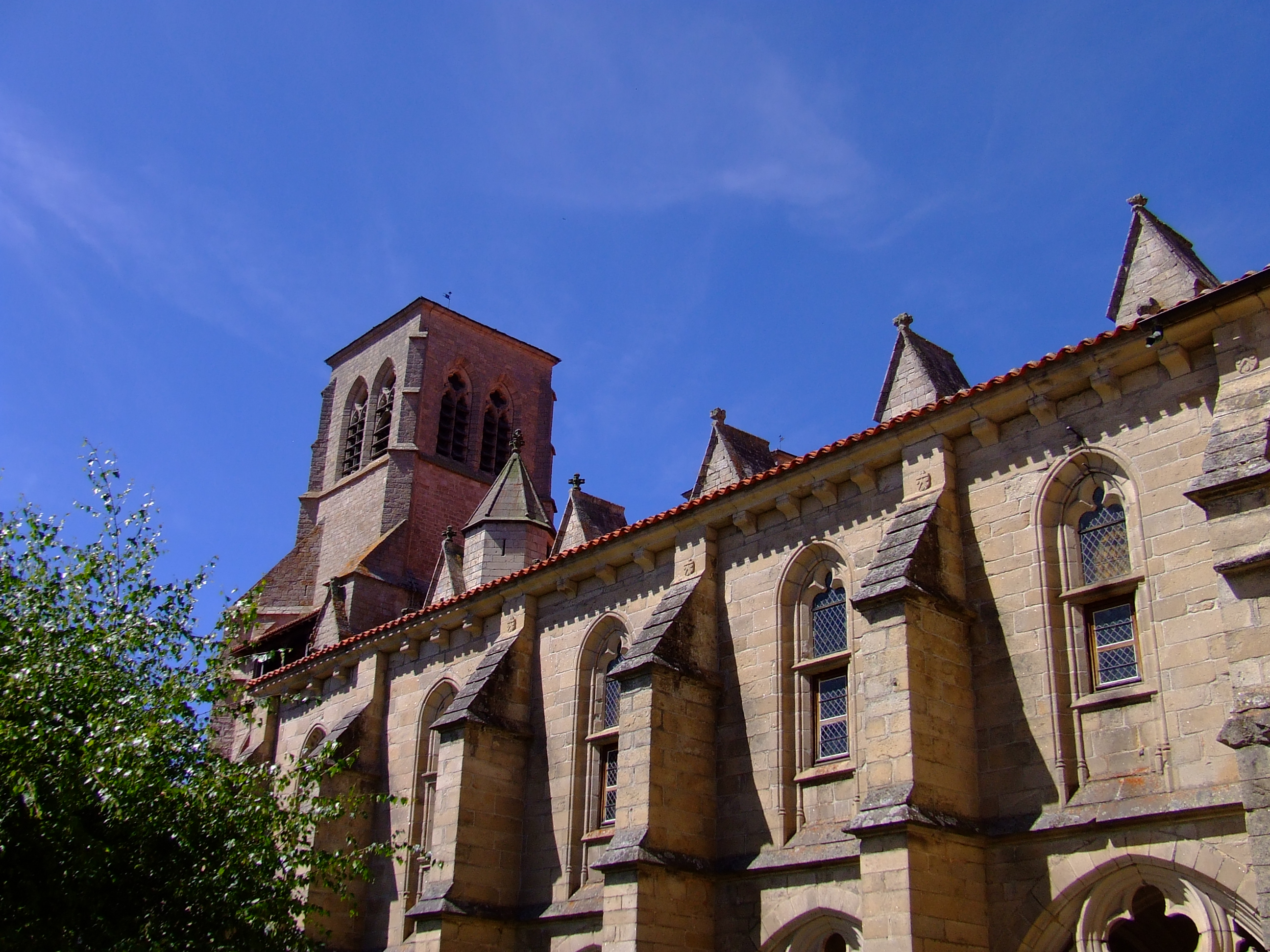 church of La Chaise-Dieu